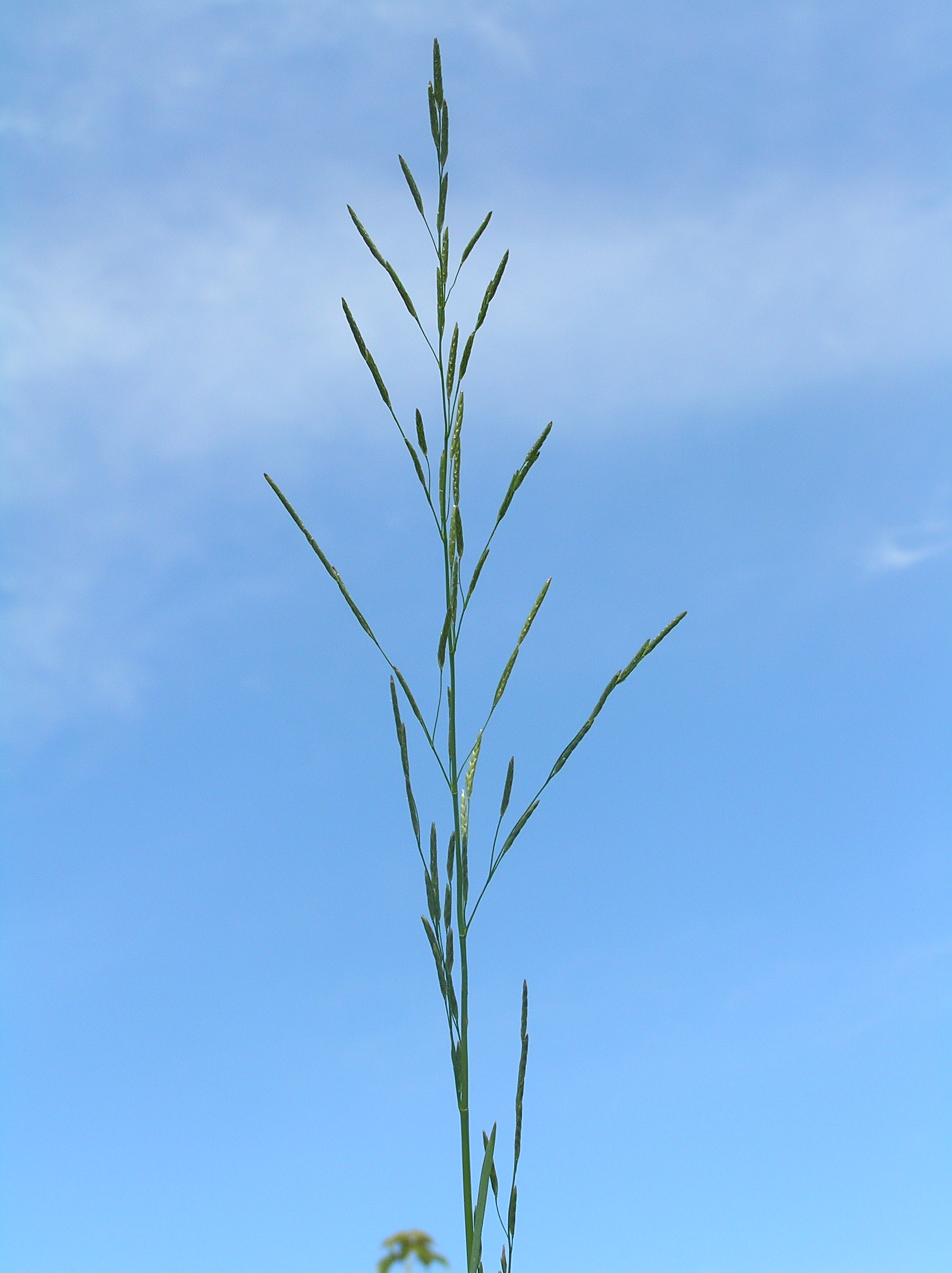 Glyceria notata, Rusava, Moravia, Czech Republic